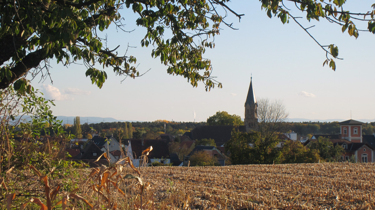 Village of Rülzheim, Rhineland-Palatinate